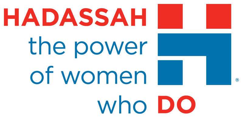 Logo of Hadassah, the Women's Zionist Organization of America is an American Jewish volunteer women's organization.